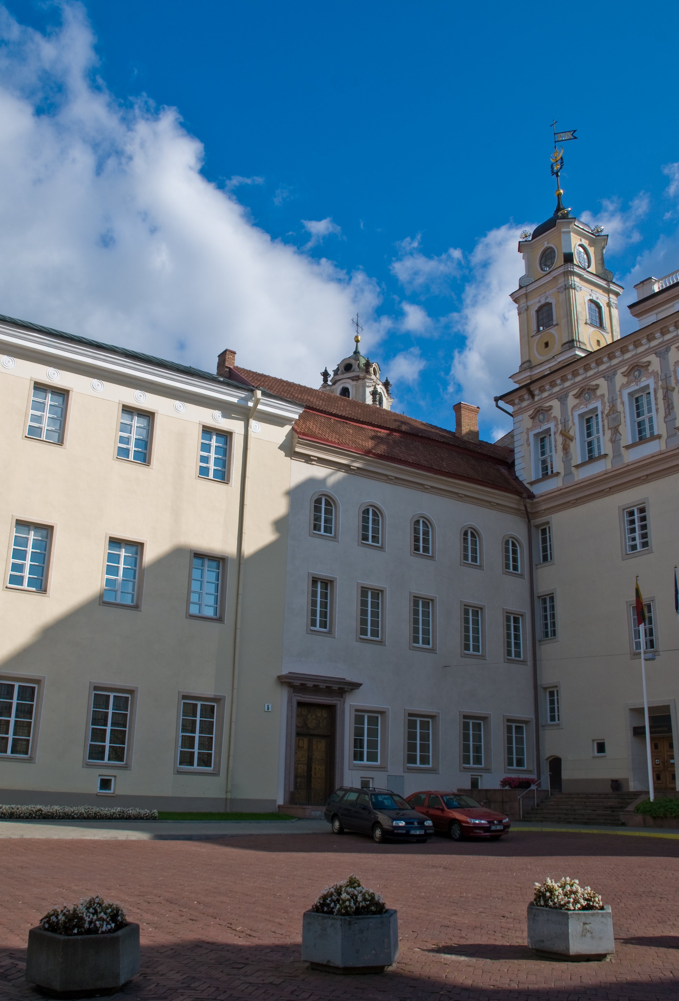 Vilnius University – Old Town campus